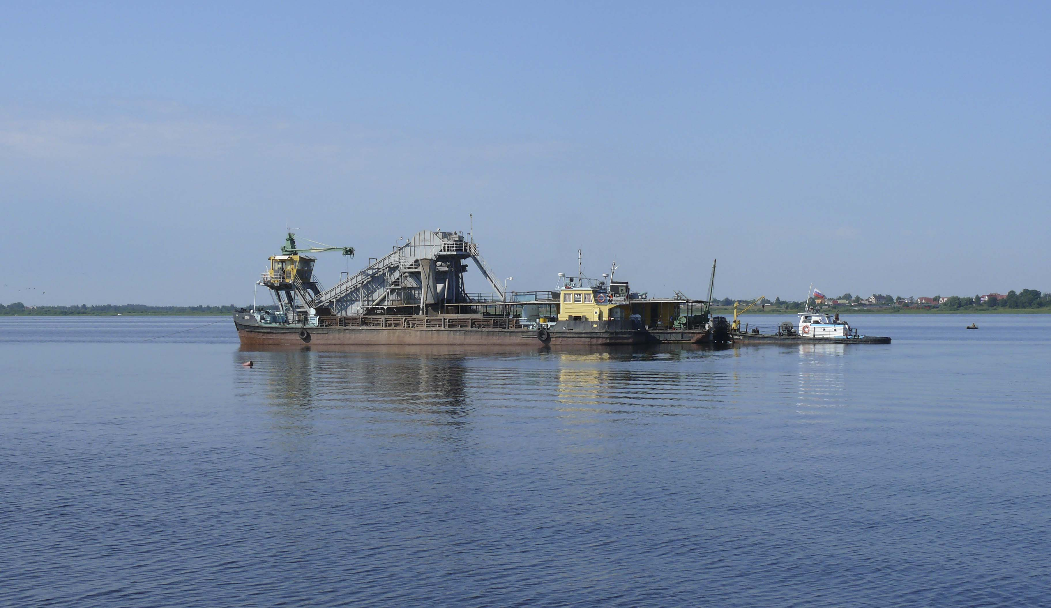 Dredging mashine in Ilmen sea, Novgorod oblast, Russia